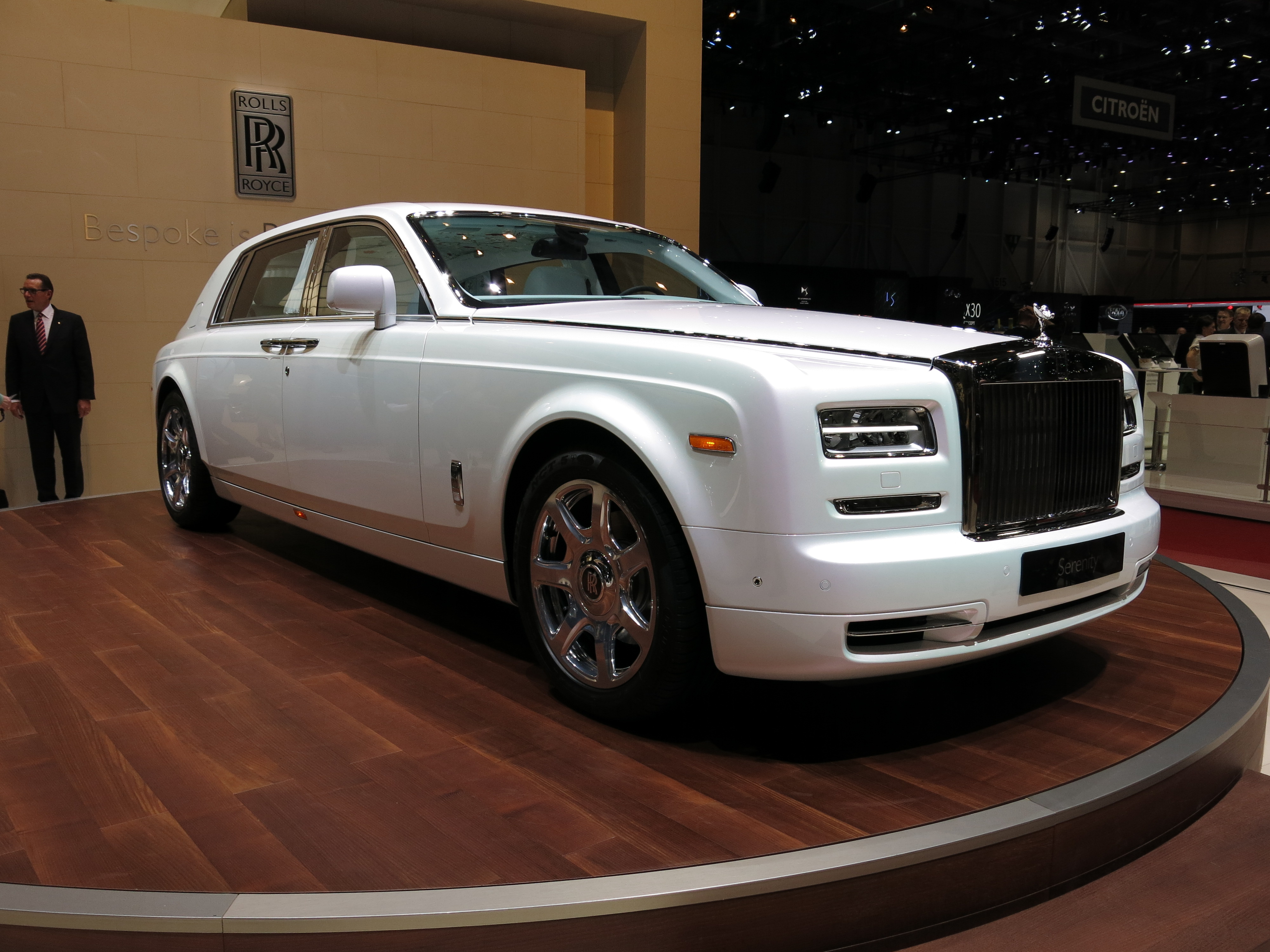 Geneva Motor Show 2015 (photo taken on the first press day)